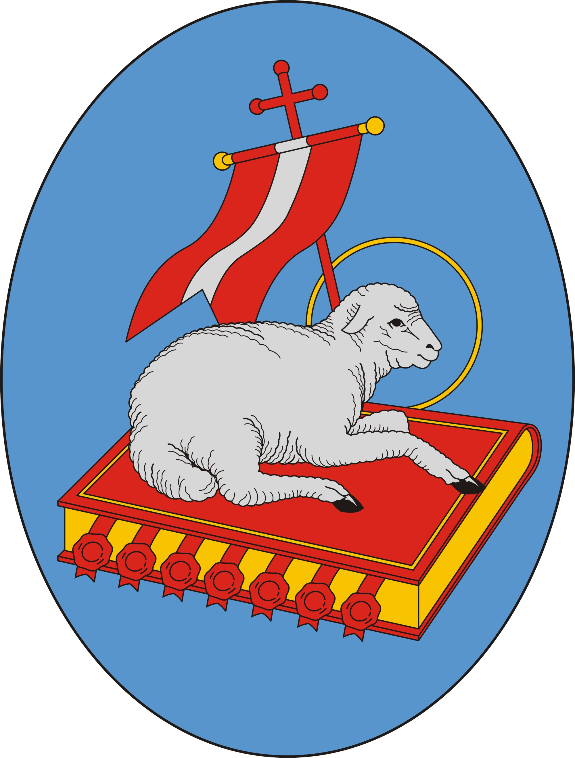 Coat of arms of Csanytelek, Hungary